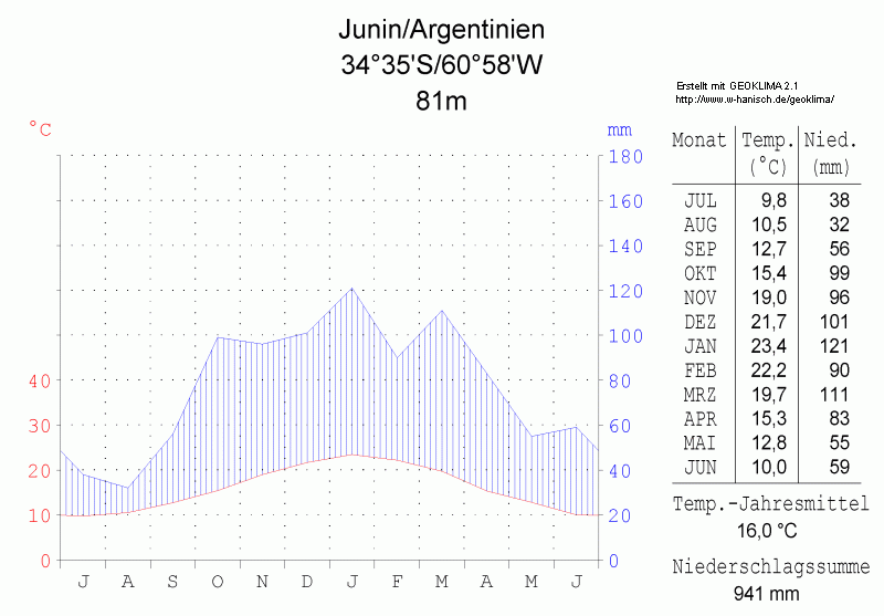 climate chart in the format by Walther and Lieth